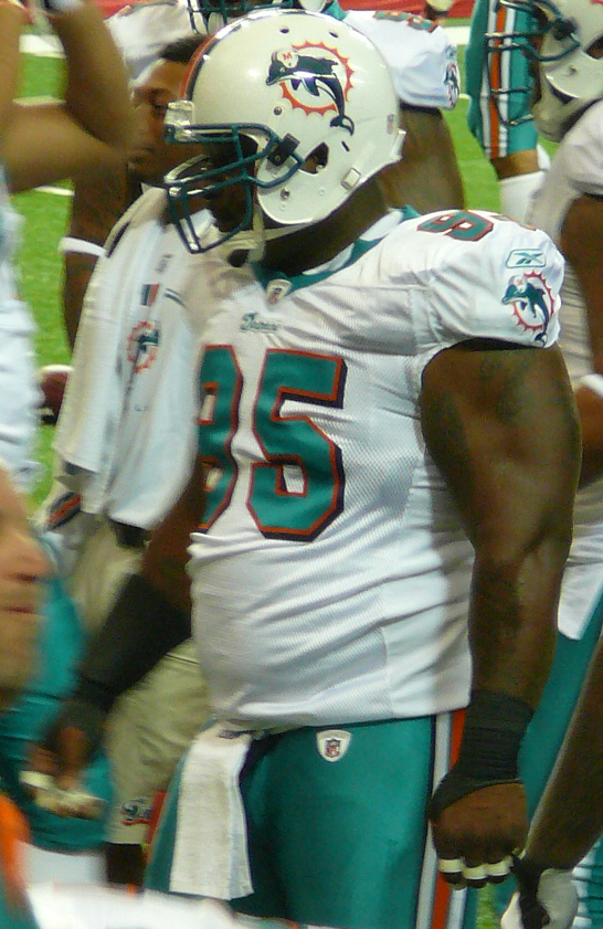 If used somewhere other than Wikipedia, Nelson, by name.